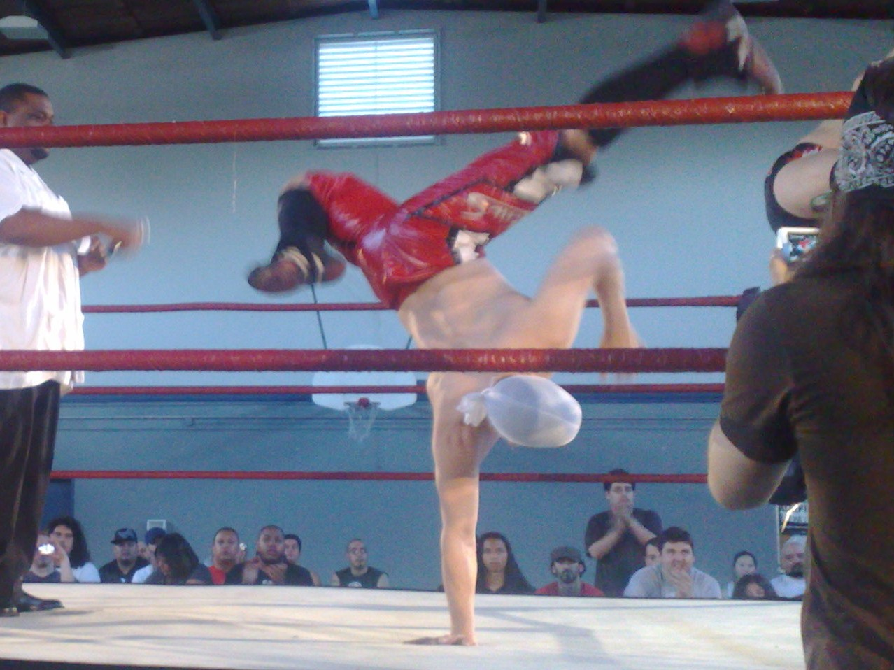 Jack Evans does a handstand at Pro Wrestling Guerrilla's DDT4 Night 2 show on May 18, 2008.